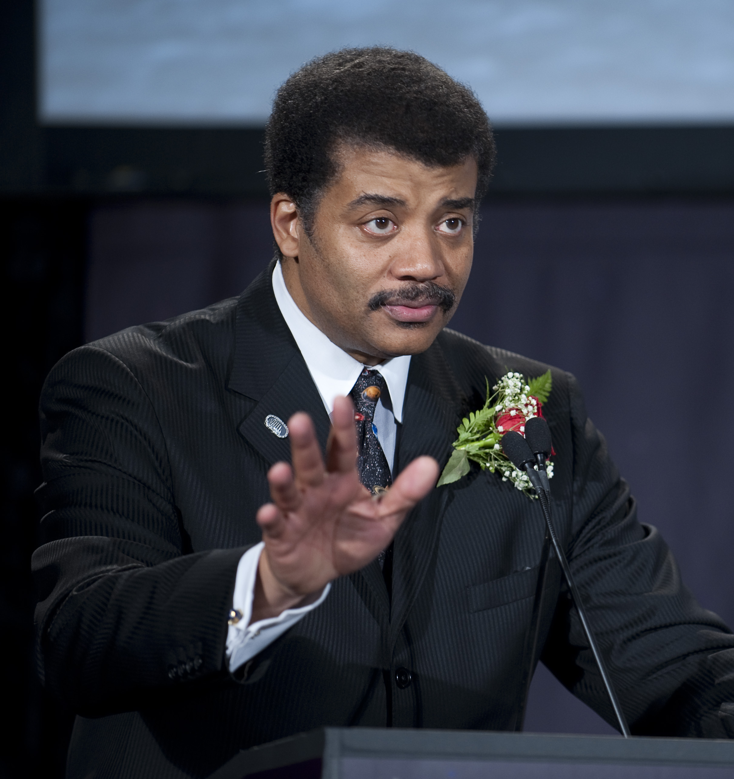 Director of the Hayden Planetarium Neil deGrasse Tyson speaks as host of the Apollo 40th anniversary celebration held at the National Air and Space Museum, Monday, July 20, 2009 in Washington.